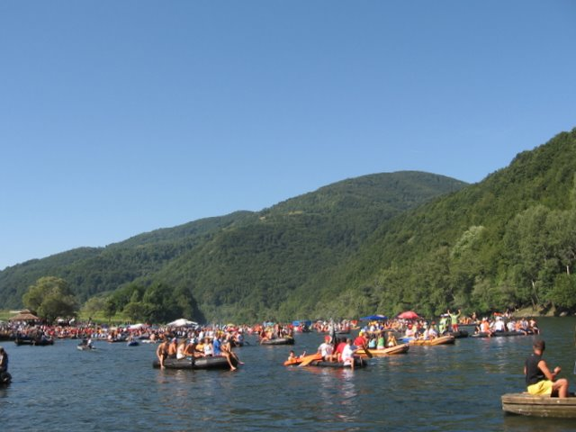 Drinska regata near Ljubovija, Serbia